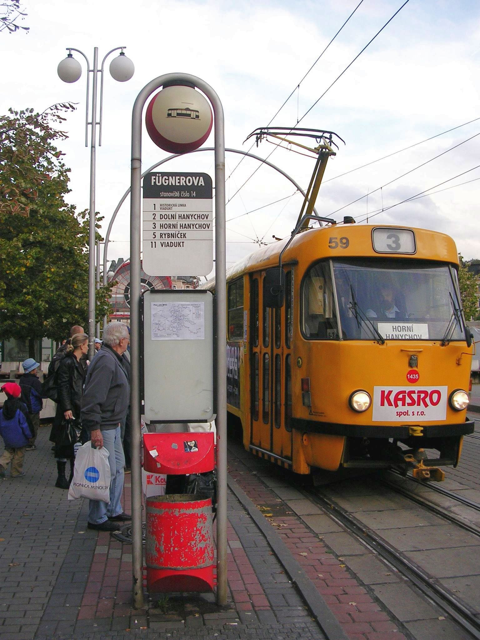 Liberec, Fügnerova street, tram stop.